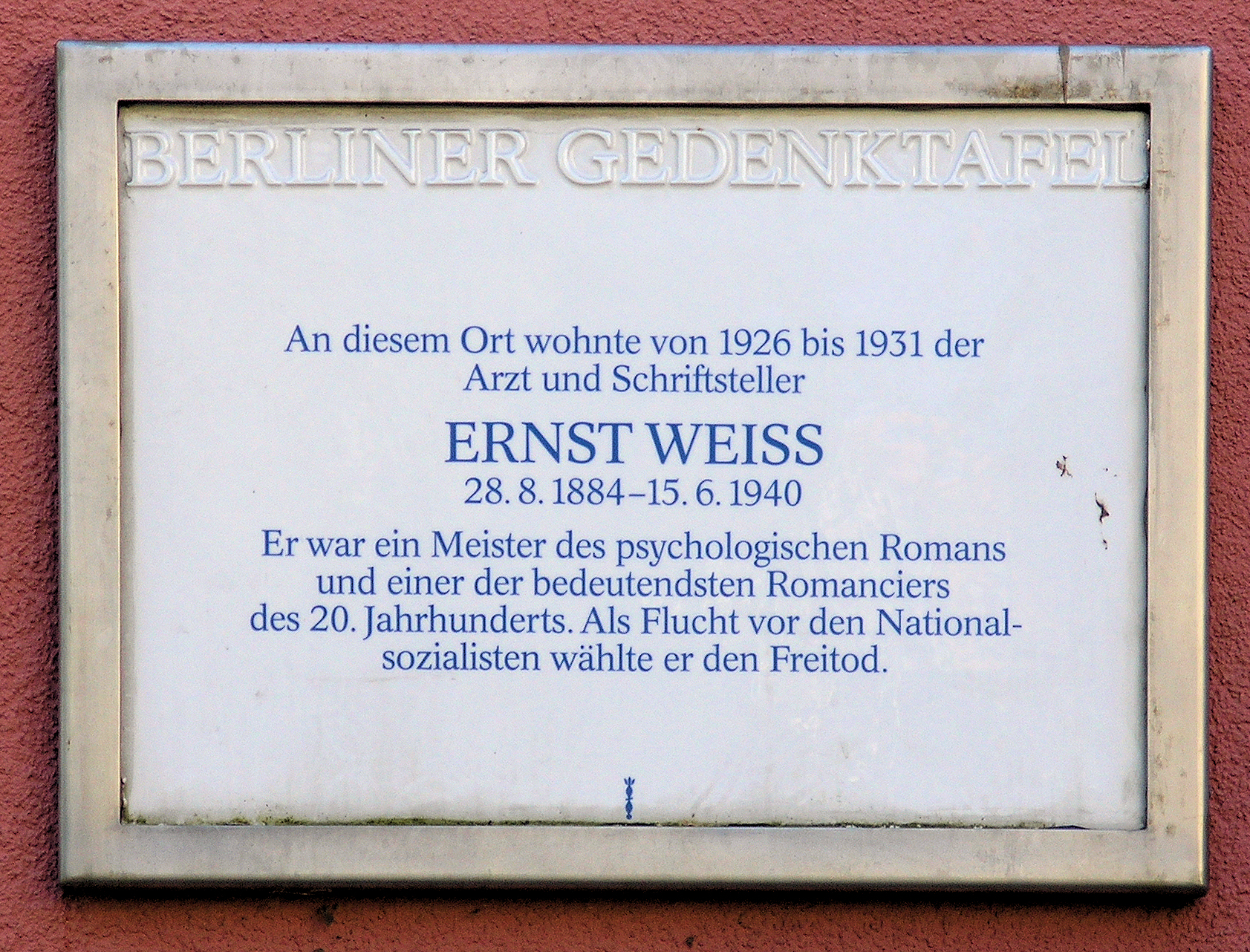 Berlin memorial plaque, Ernst Weiss, Luitpoldstraße 34, Berlin-Schöneberg, Germany